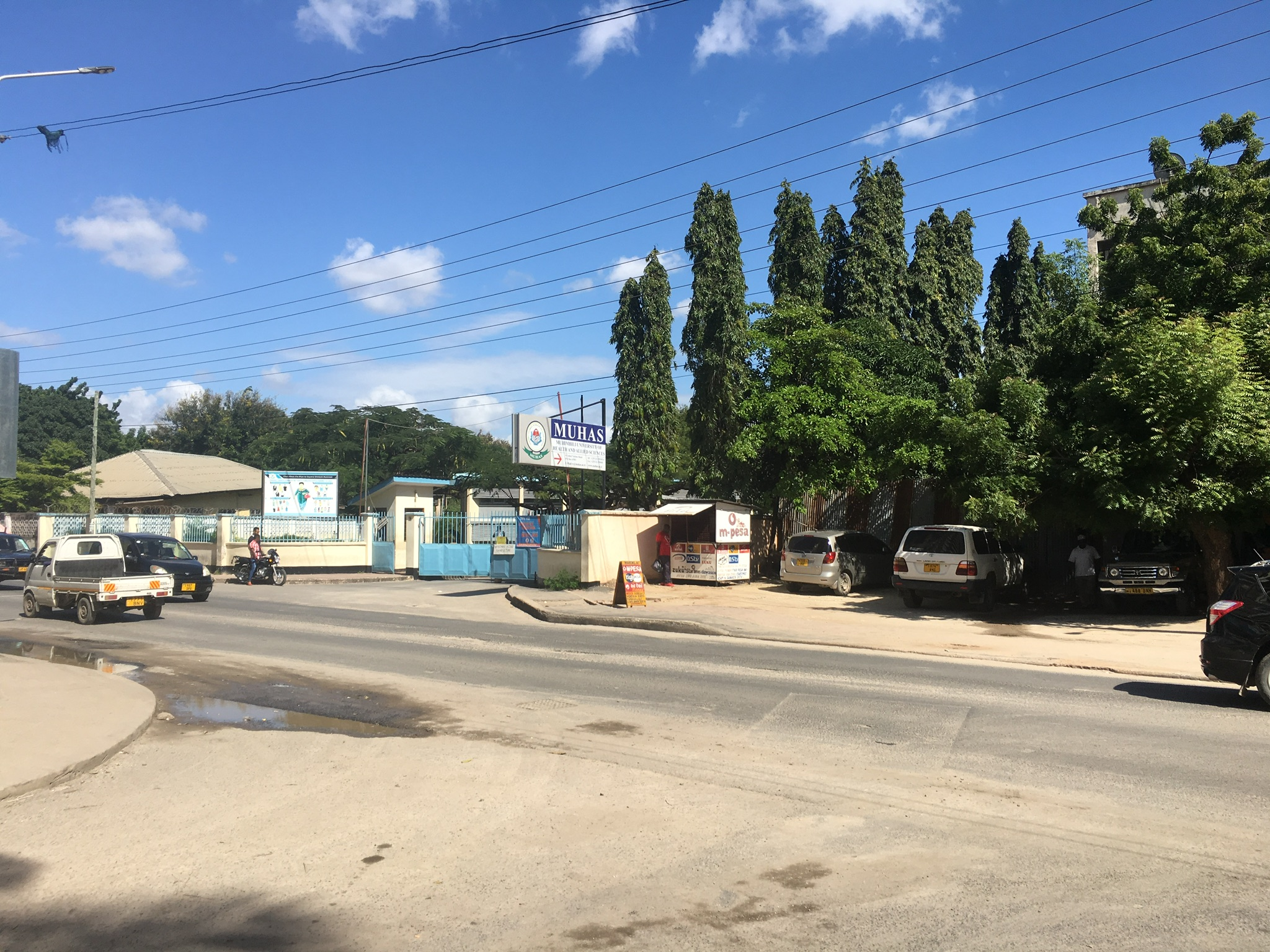 Muhimbili University of Health and Allied Sciences Entrance